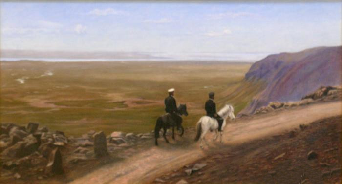 King Fredrik VIII of Danemark and Hannes Hafstein governor of Iceland ride to Thingvellir in 1908. Oil painting by Þórarinn B. Þorláksson (1867-1924)